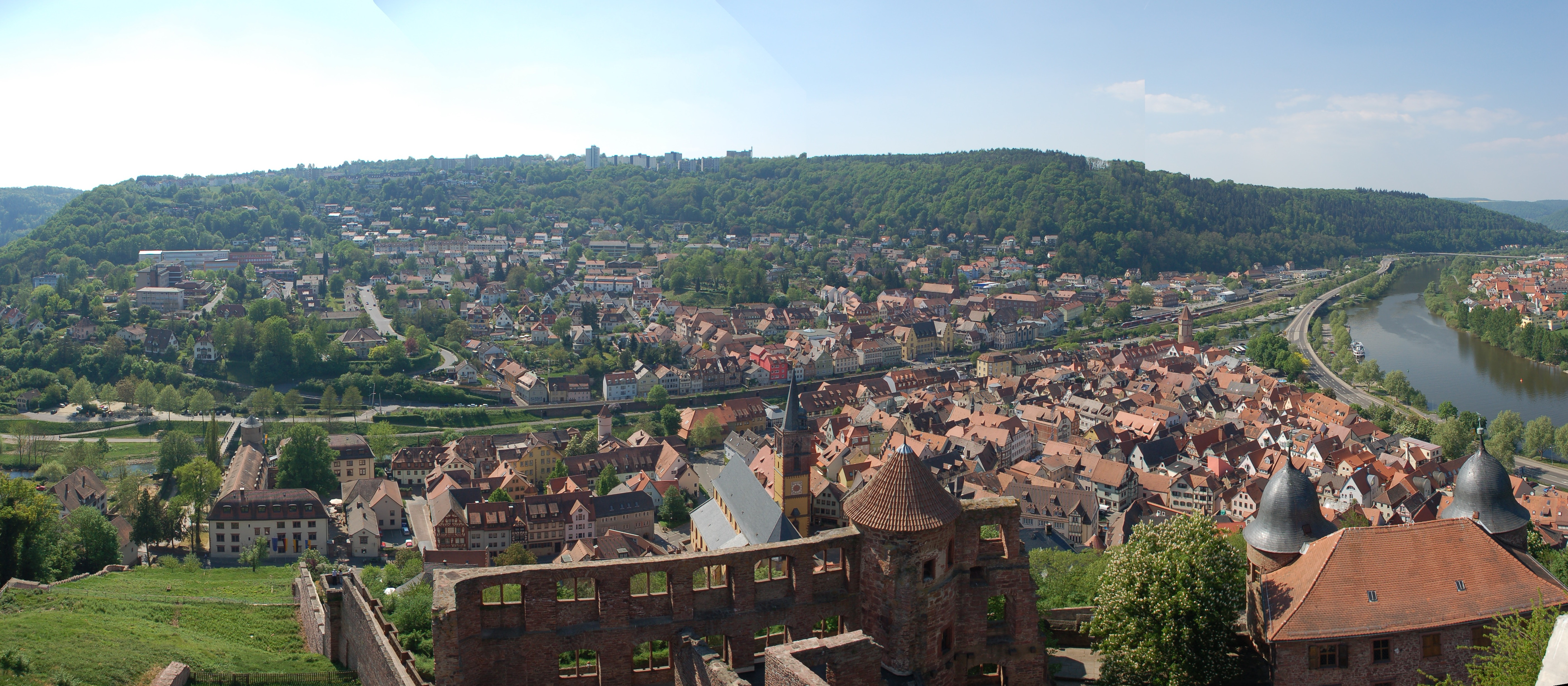 Panorama of Wertheim